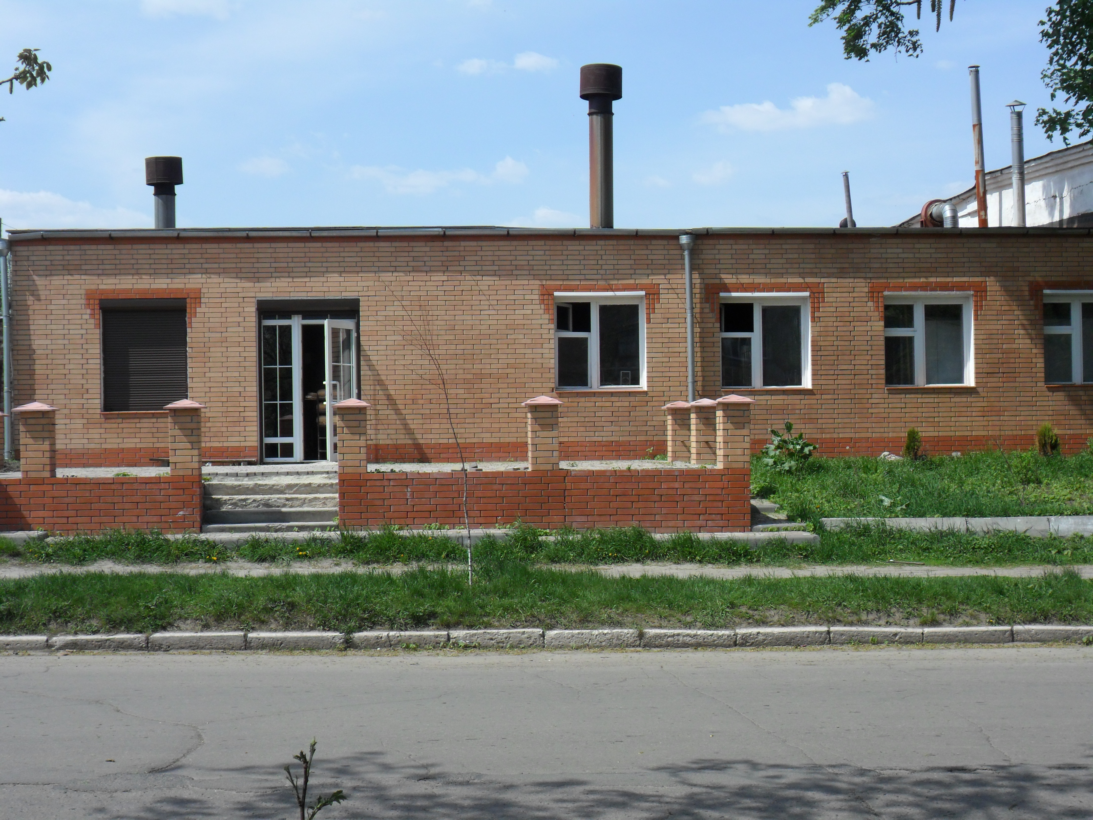 Bakery in Opishnya, Poltava Oblast